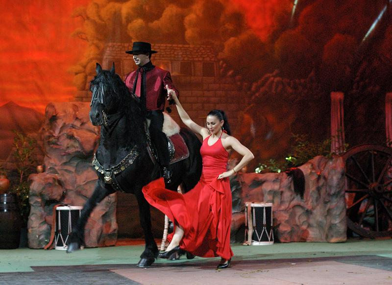 Animal's Show in Pombia Safari Park ITALY